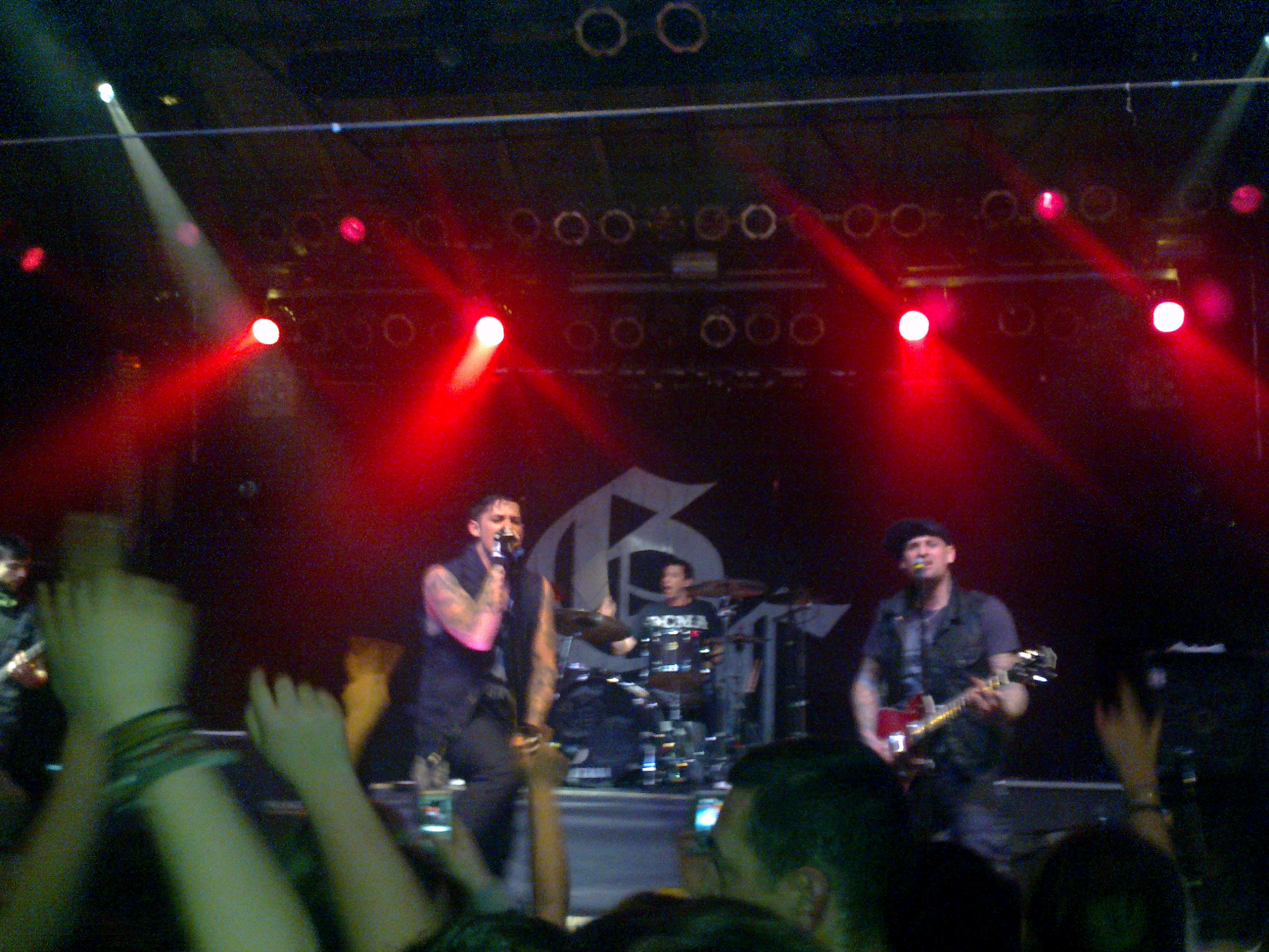 Picture of Good Charlotte taken during their concert in Sarrebrück the 25/01/2011.